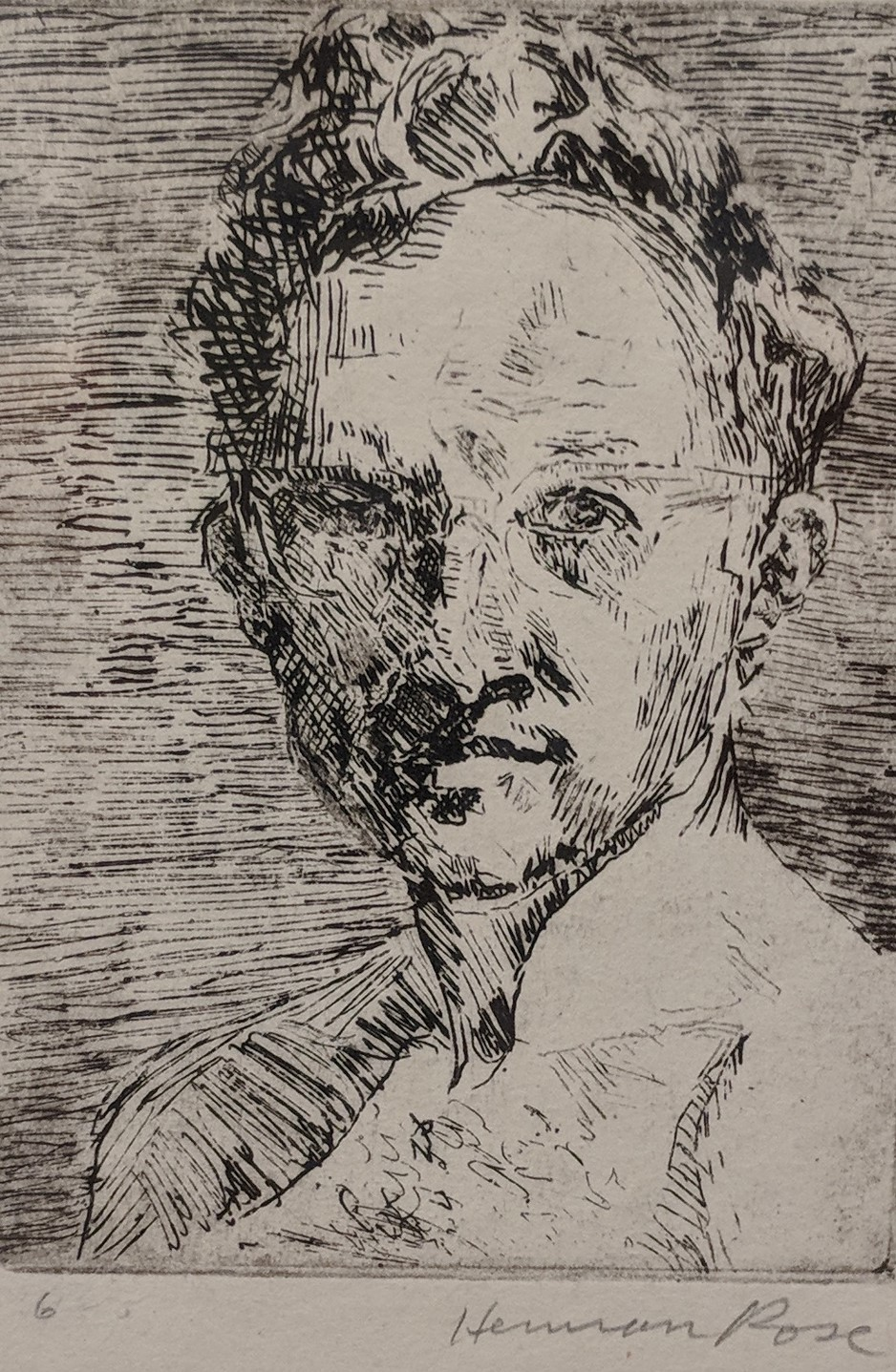 Sketch